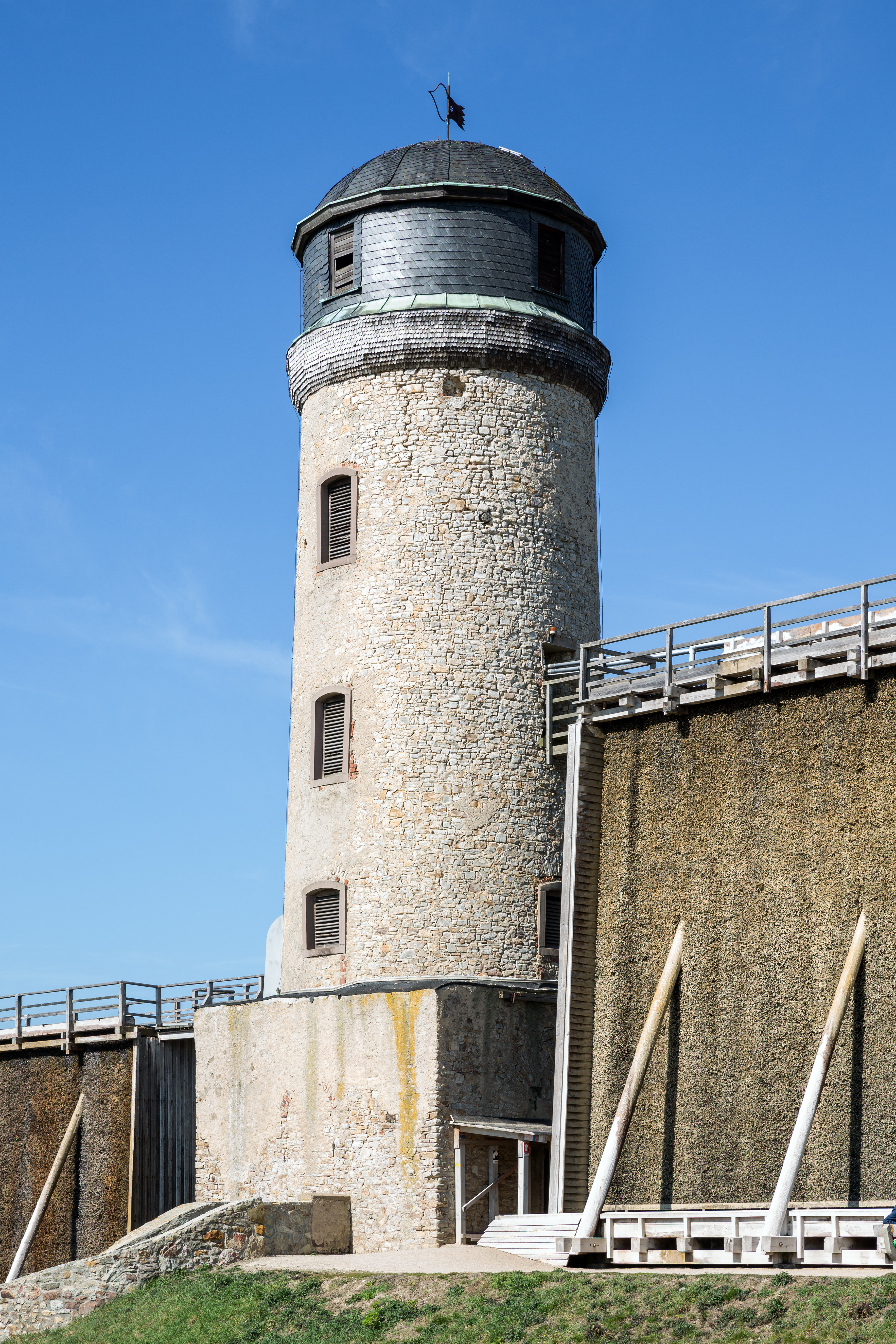 Bad Nauheim: Windmill Tower inbetween the Gradierbauten IV/V (Graduation Towers IV/V), the so called Lange Wand (Great Wall) as seen from the southeast